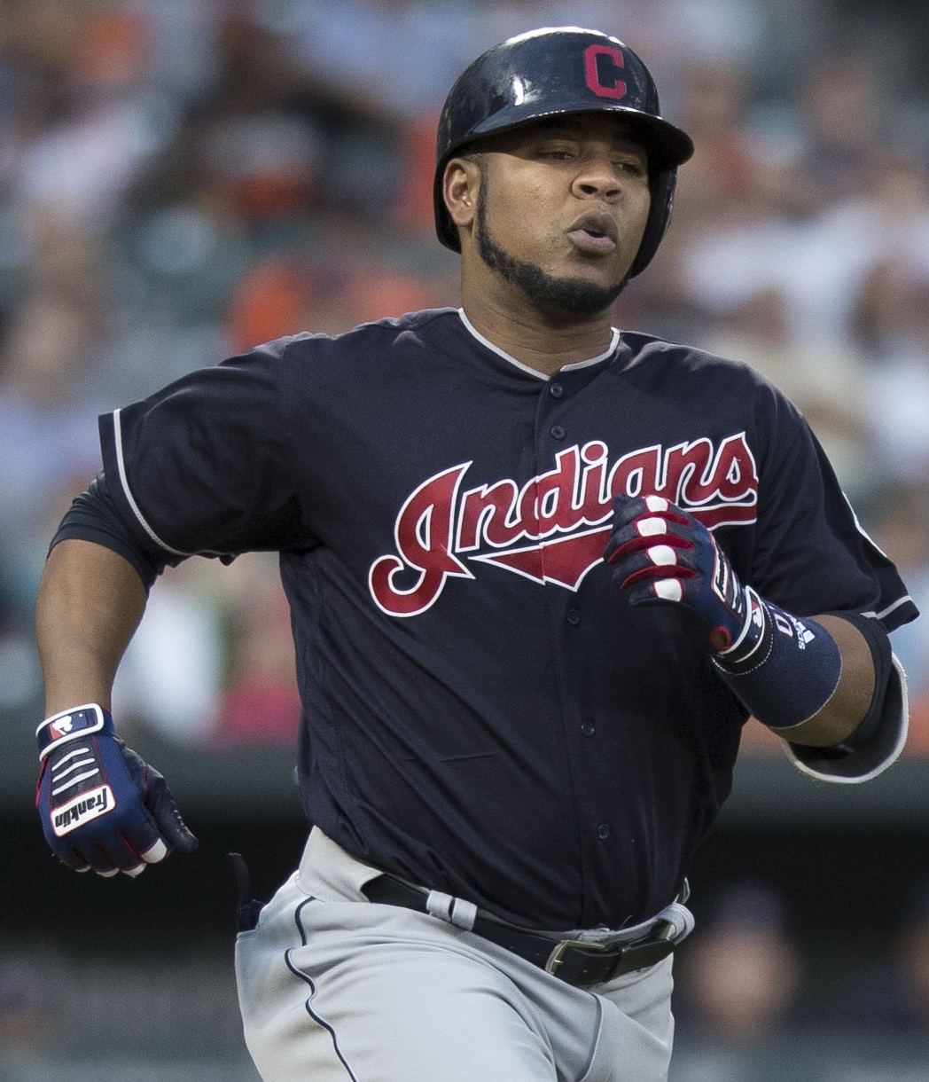 Indians at Orioles 6/20/17